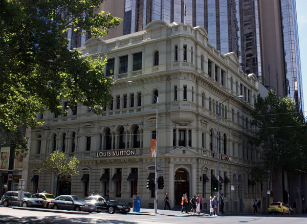 Louis Vuitton on Collins Street